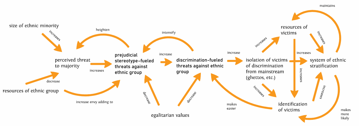 Model of ethnic and racial conflict. Based on Jonathan H. Turner (2005). Sociology. Page 238